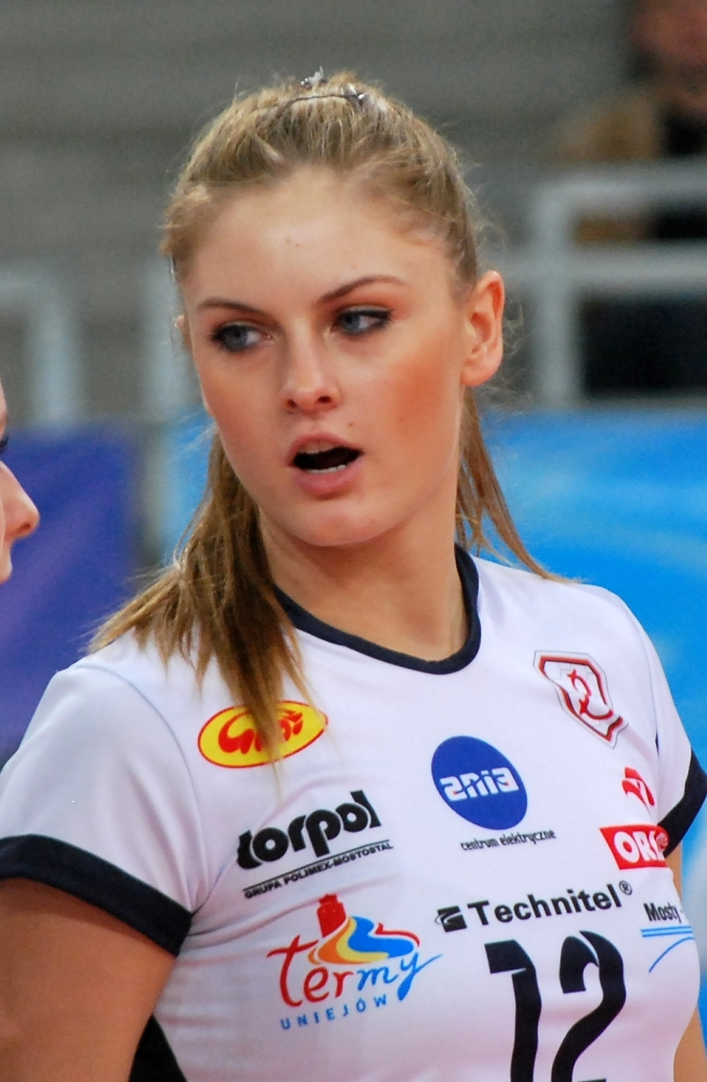 Martyna Grajber, volleyball player from Poland